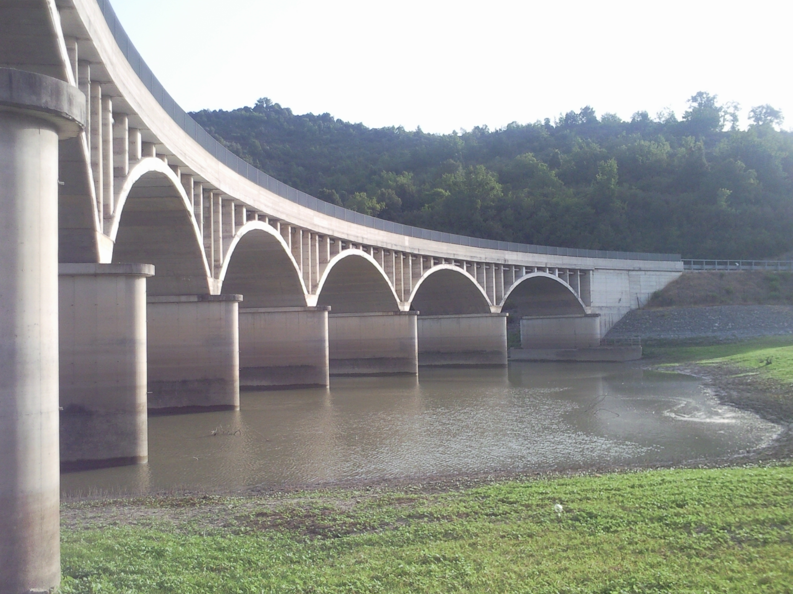 Diga Alento